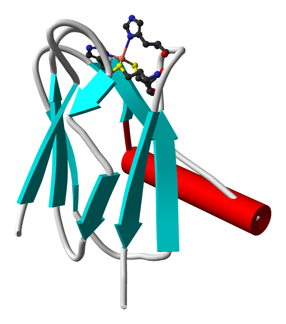 Ball-and-stick model of the coordination of copper molecule in the crystal structure of the protein plastocyanin. X-ray crystallographic data from PDB 3BQV. Model constructed in CrystalMaker 8.1. Image generated in Accelrys DS Visualizer.